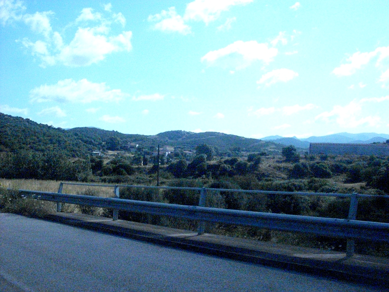 Village Is Cattas (Santadi, Sardinia, Italy)